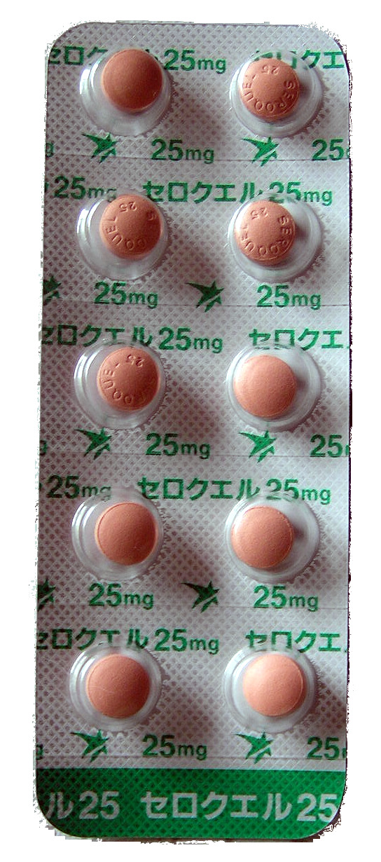 Quetiapine (pronounced /kwɨˈtaɪ.əpiːn/ kwi-TYE-ə-peen), marketed by AstraZeneca as Seroquel and by Orion Pharma as Ketipinor, both as an quetiapine fumarate salt of the drug, is an atypical antipsychotic used in the treatment of schizophrenia, bipolar I mania, bipolar II depression, bipolar I depression, and used off-label for a variety of other purposes, including insomnia and anxiety disorders.